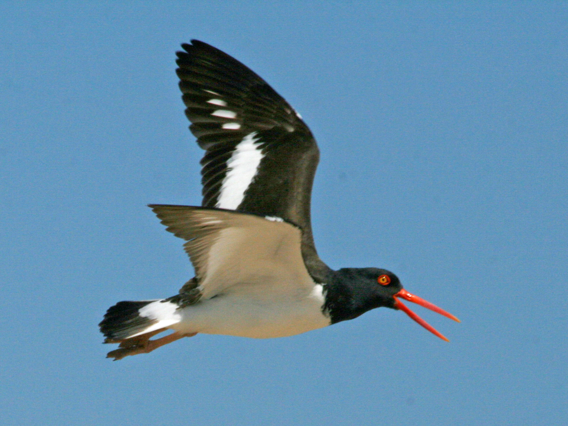 American Oystercatcher (Haematopus palliatus) along the Cape Fear River, near Wilmington, North Carolina